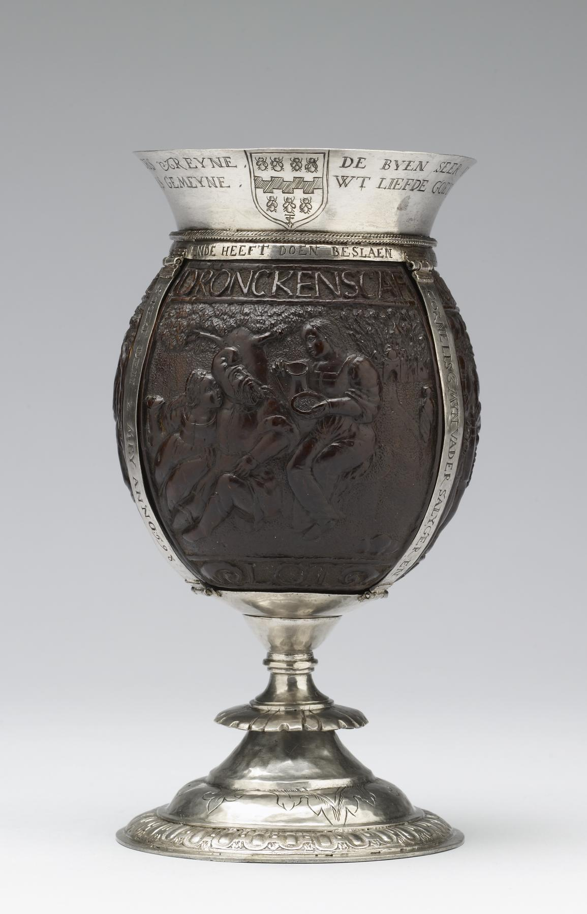 Objects of curiosity, coconuts from Africa or the East Indies were often turned into cups with silver mounts. The inscription in Dutch, "Drunkenness is the root of all evil," accompanies Old Testament scenes of Susanna threatened by the Elders, Delilah cutting Samson's hair, and Lot with his daughters, all involving succumbing to temptation. Other inscriptions announce that Cornelis de Bye carved the coconut and that his daughter Nelltgen had it mounted to commemorate his death, adding a further rhyme celebrating the bee's (Bye's) creation of pure honey through the love of God.